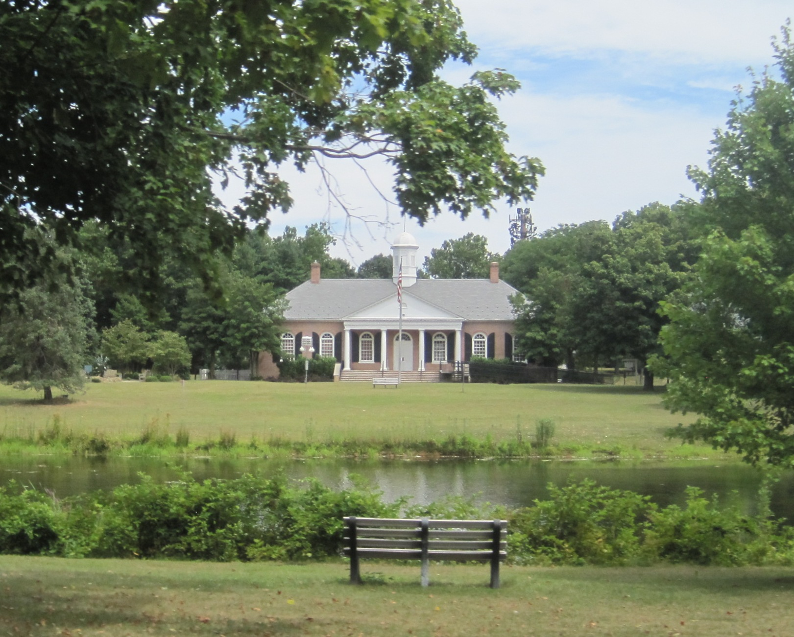 Town hall of Colts Neck Township, New Jersey as seen from Cedar Lane.